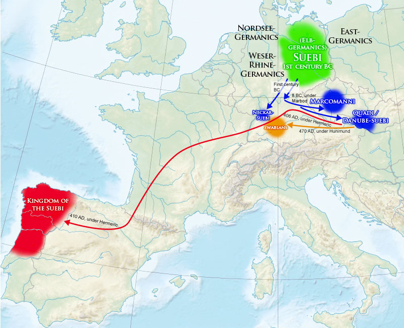 A map showing the movements of Suebi across Europe.